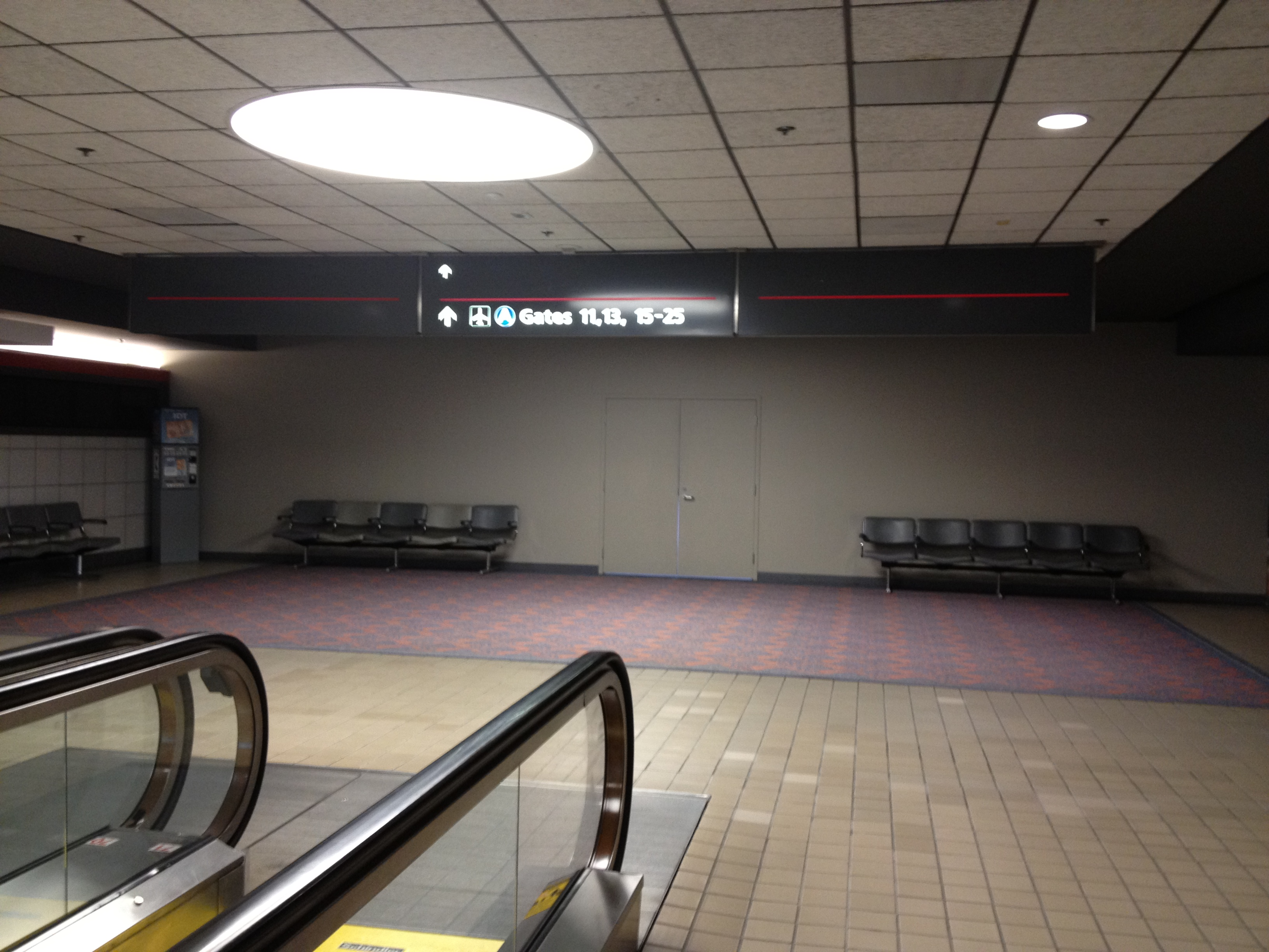 End of Concourse A at Pittsburgh International Airport, with wall sealing off unneeded gates